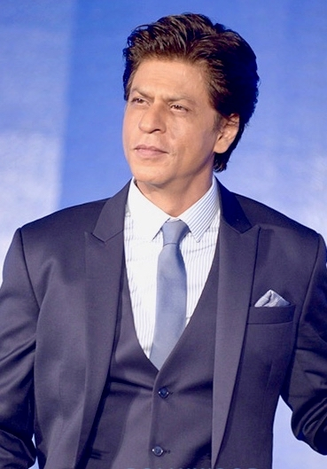 Shah Rukh Khan graces the launch of the new Santro